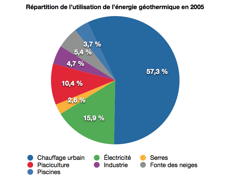 2005 use of geothermal energy in iceland, french